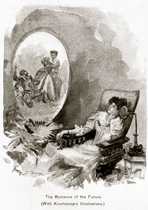 Illustration by Albert Robida, for « The End of Books » by Octave Uzanne, published in Scribner's Magazine, vol. 16, no 2, August 1894, p. 230.